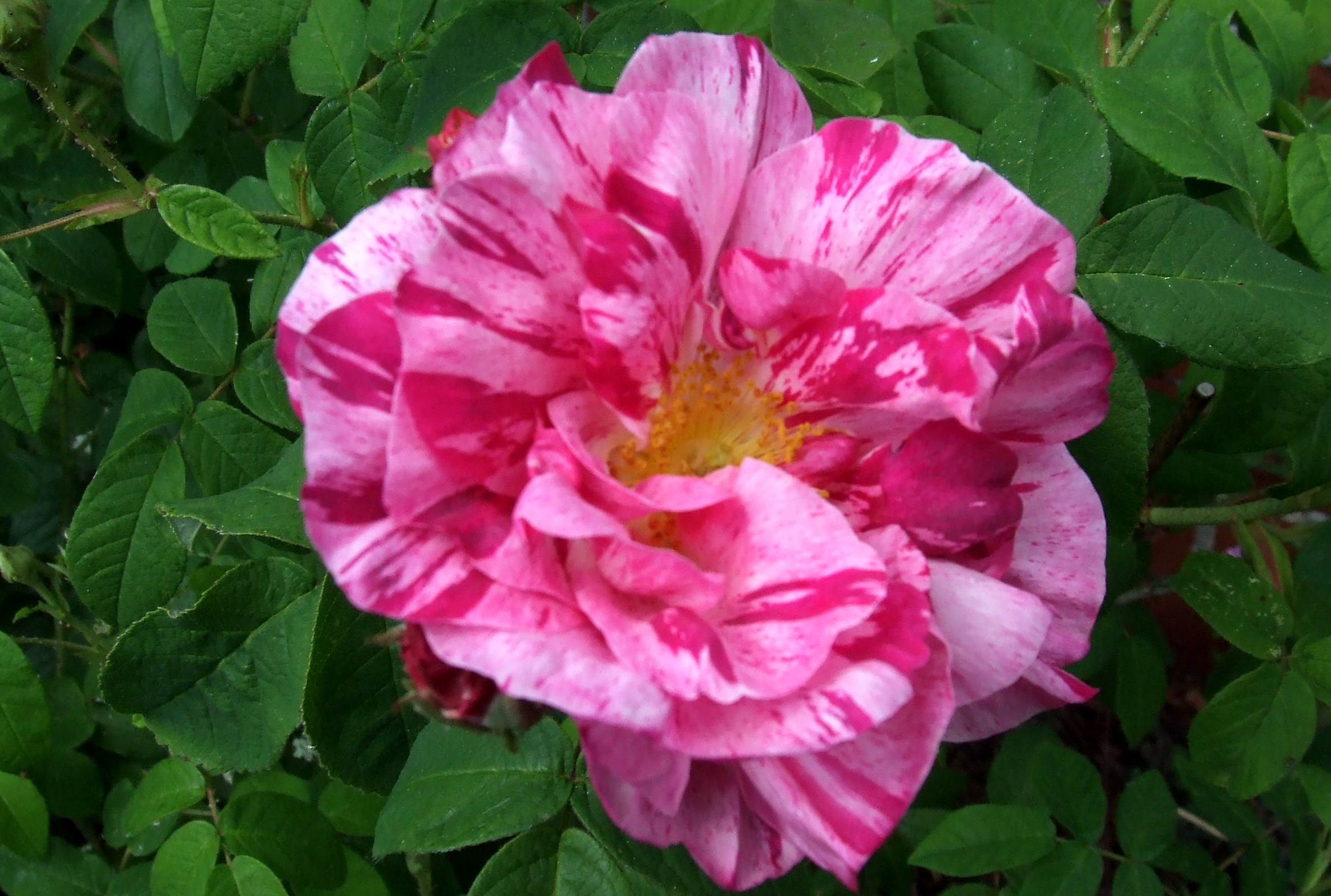 Rose, Rosa Mundi, a striped Gallica, believed to date from the 12th century.